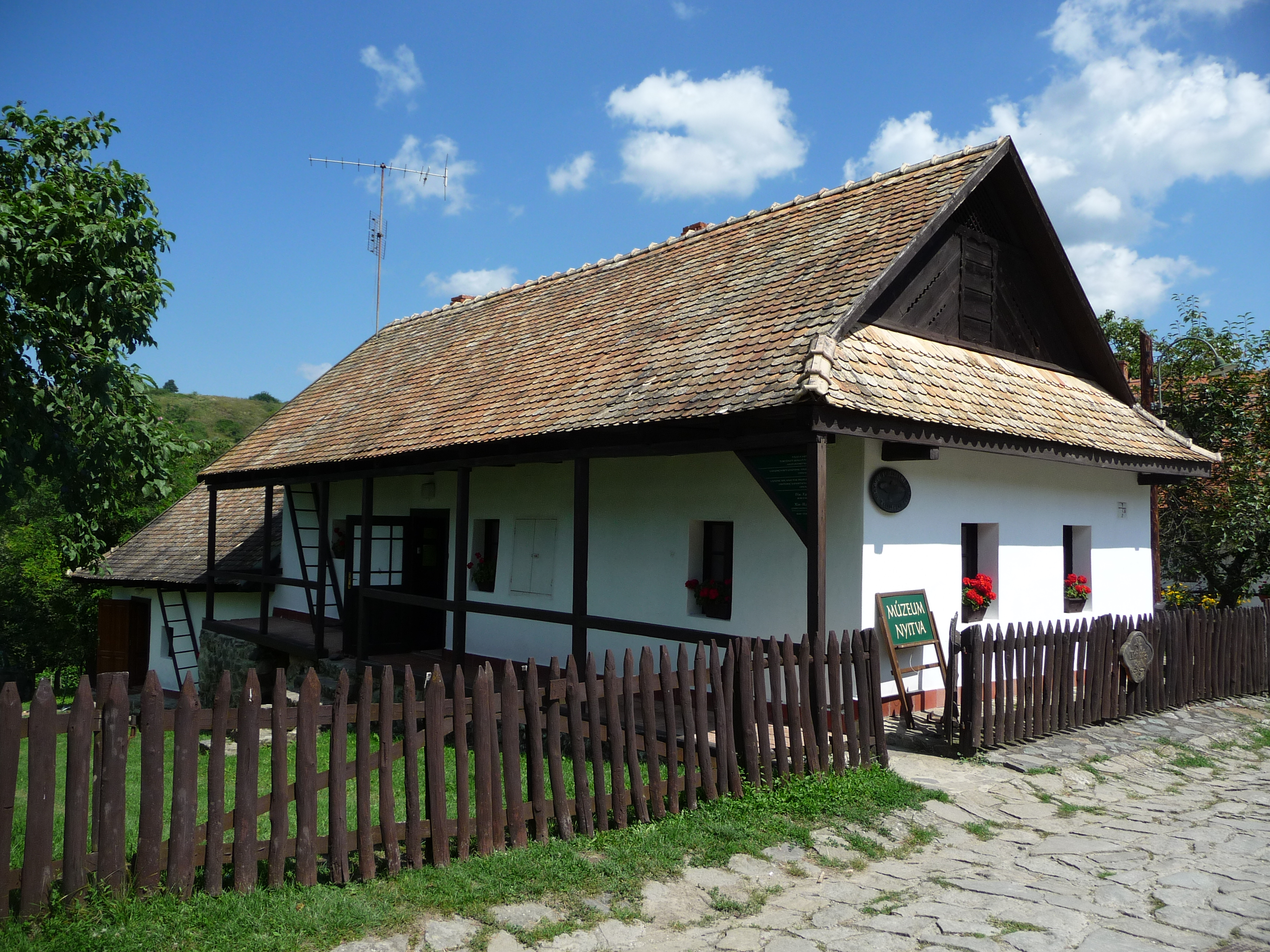 Hollókő, Kossuth u. 99–101., Hungary - monument house, museum This is a photo of a monument in Hungary. Identifier: 6632